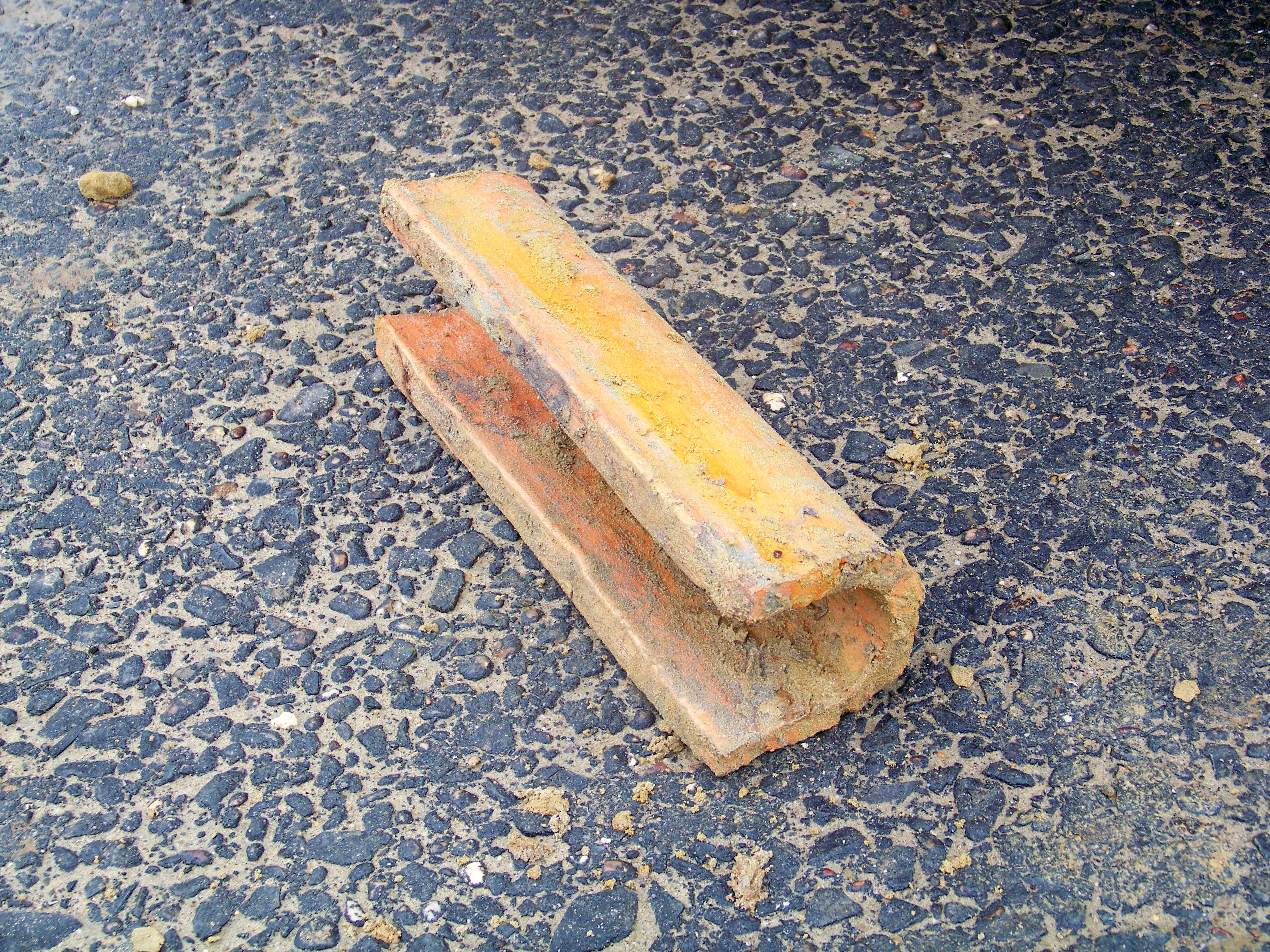 Old terra cotta drain tile uncovered during excavation in Monmouth County, New Jersey.